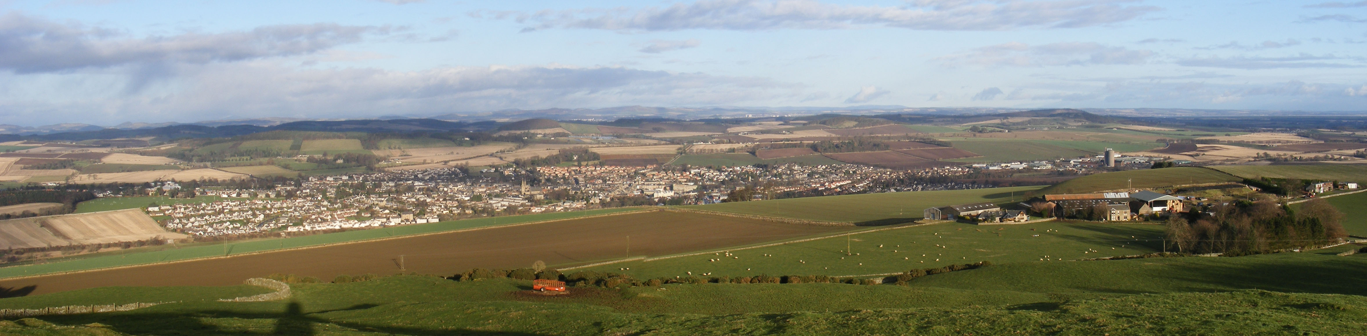 Cupar, Fife, seen from the summit of Tarvit Hill